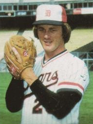 Professional baseball player Tim Jones